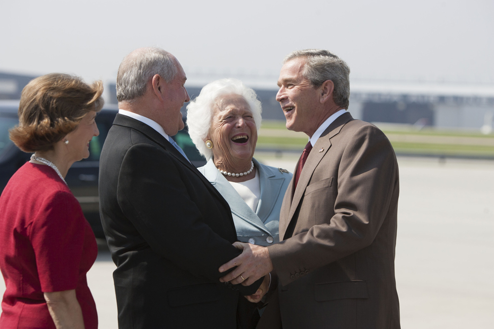 President George W. Bush and his mother Barbara Bush are greeted by Georgia Governor Sonny Perdue, upon their arrival to Atlanta, Friday, July 22, 2005, to attend events to talk about Social Security and Medicare. White House photo by Paul Morse